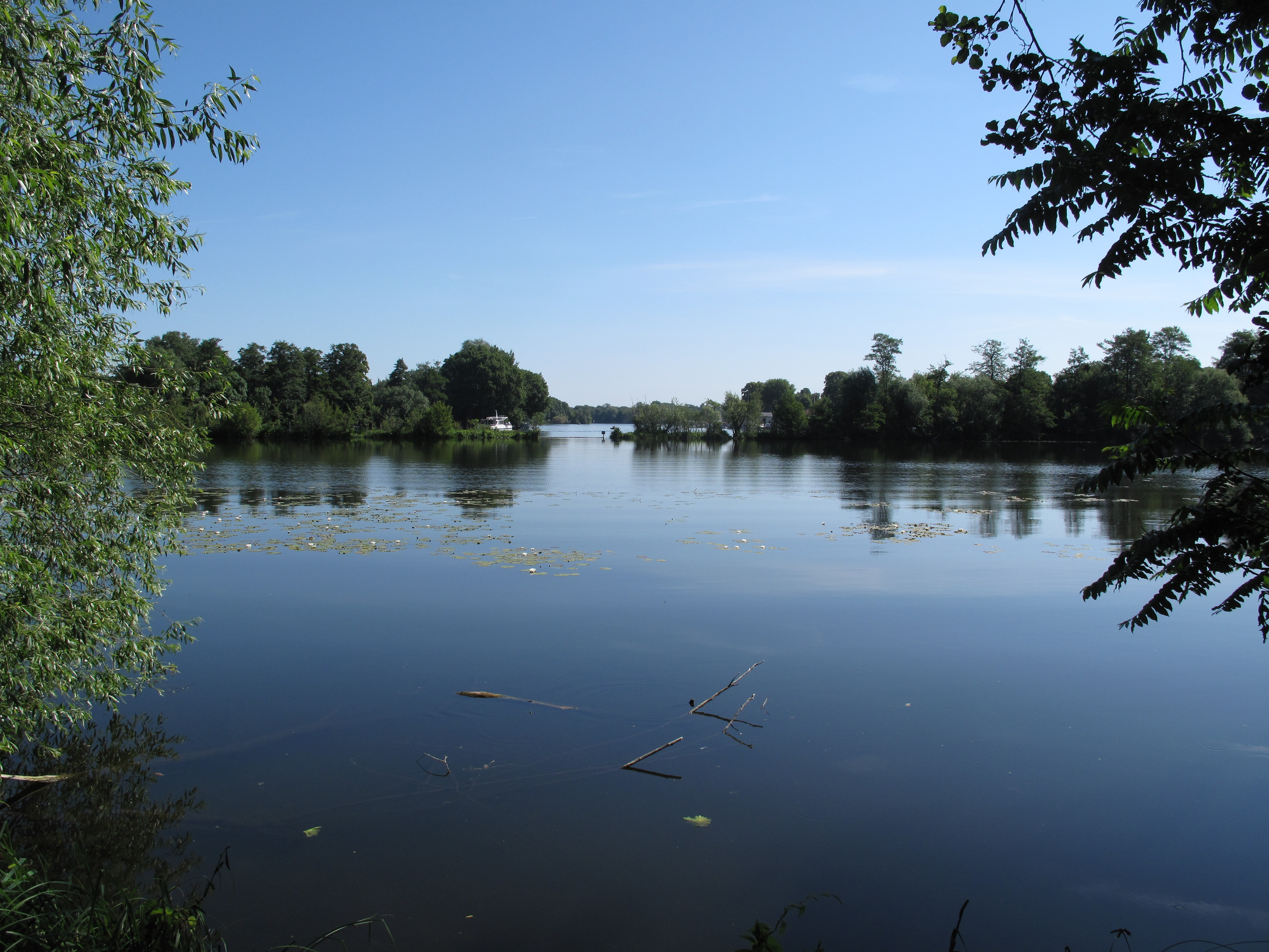 The Kleine Malche, the southernest bay of the Lake Tegel in Berlin. In the background the isle Maienwerder.